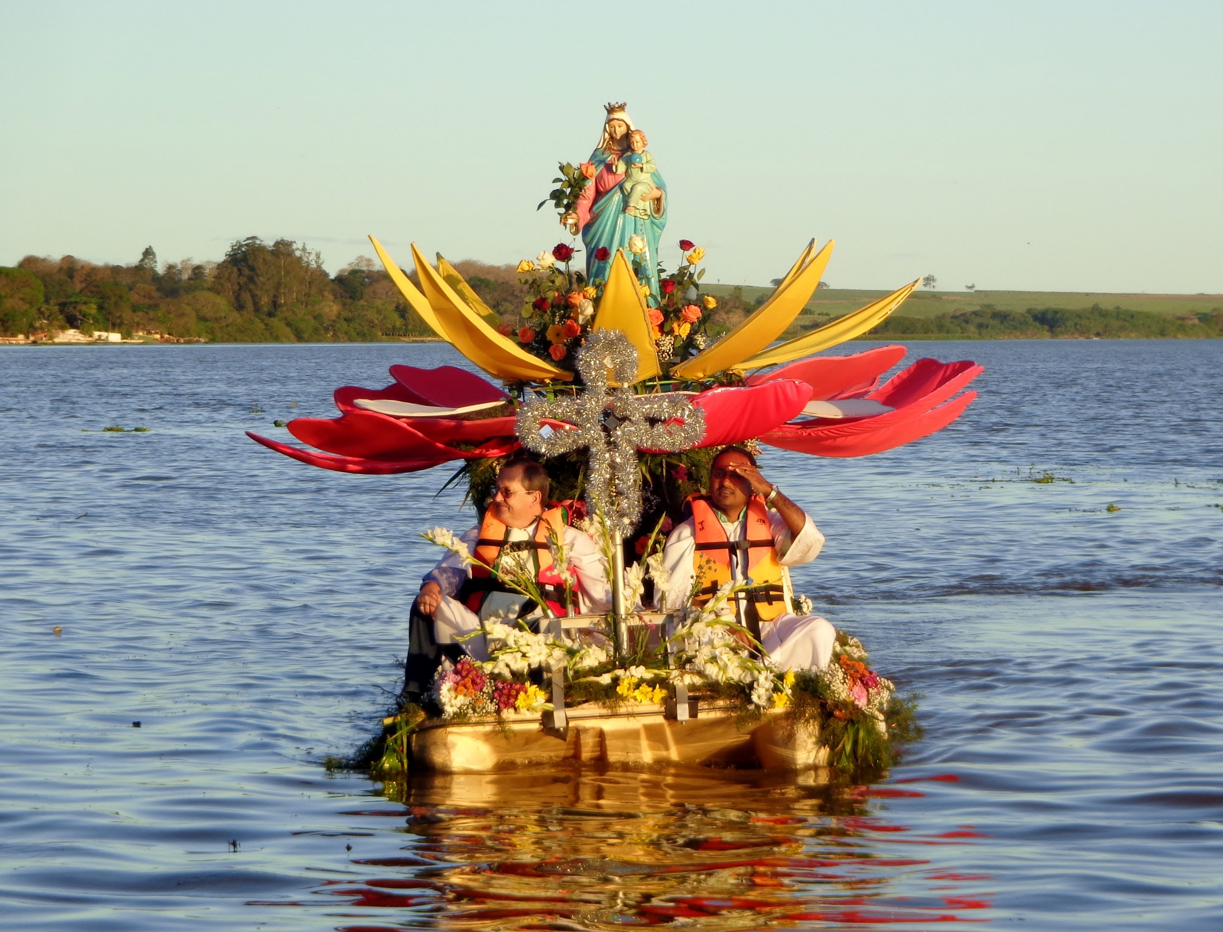 Boat procession held annually in Salto Grande.